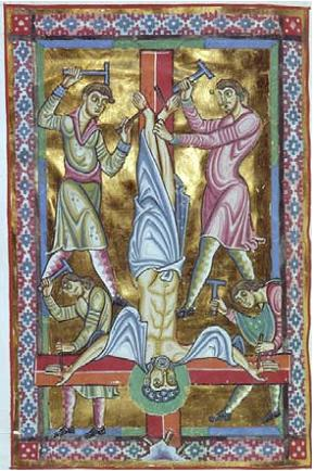 Fol. 74r from Perikopenbuch von St. Erentrud. Crucifixion of St. Peter.